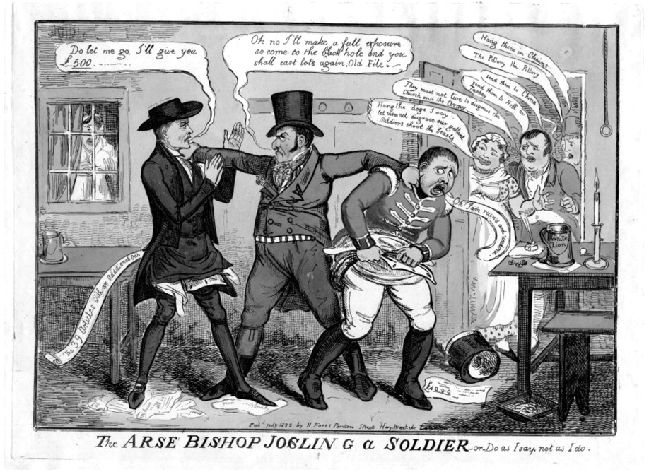 The Bishop of Clogher arrested in 1822 for homosexual act with a soldier; caricature by Cruikshank